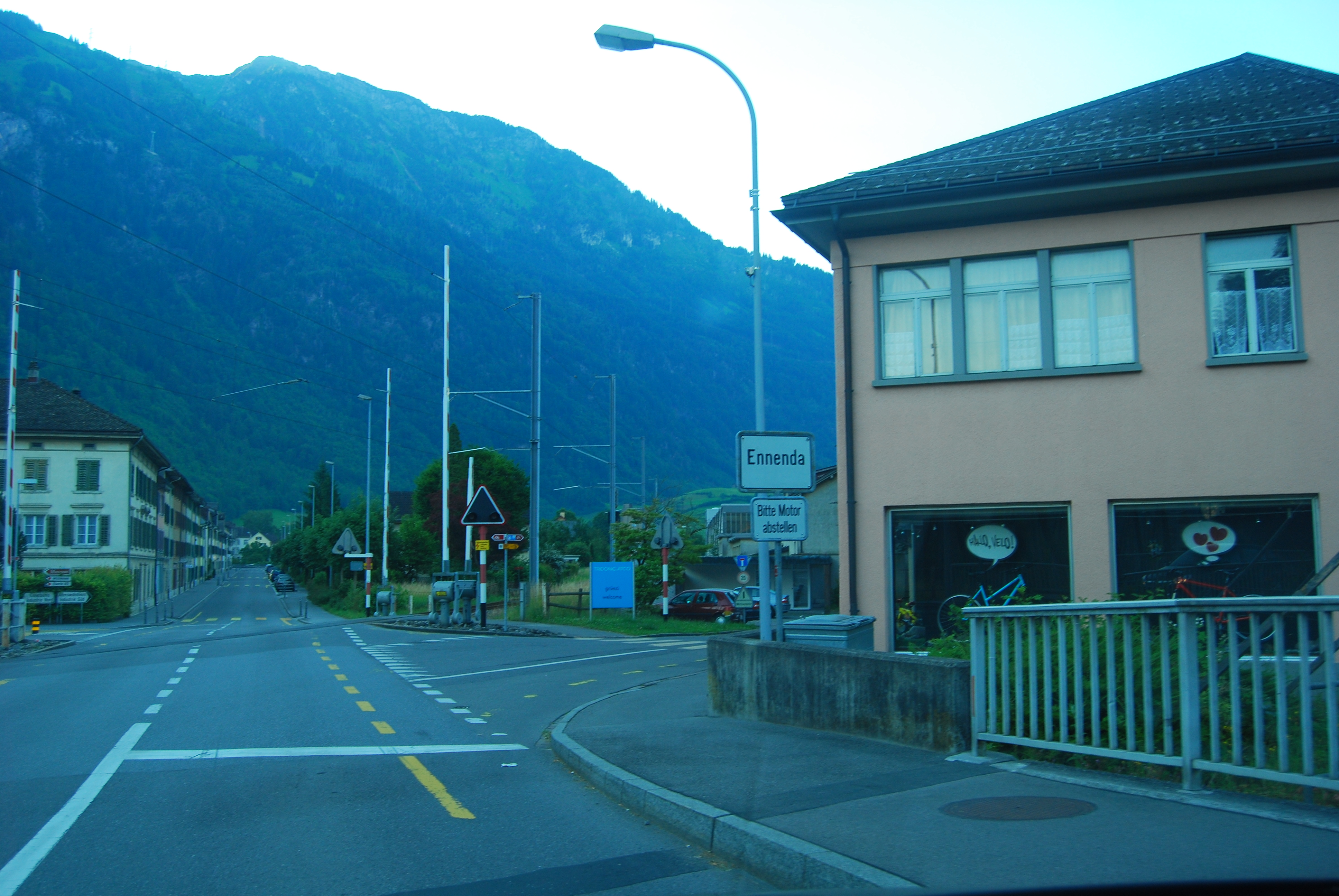 Level crossing at Ennenda, canton of Glarus, Switzerland